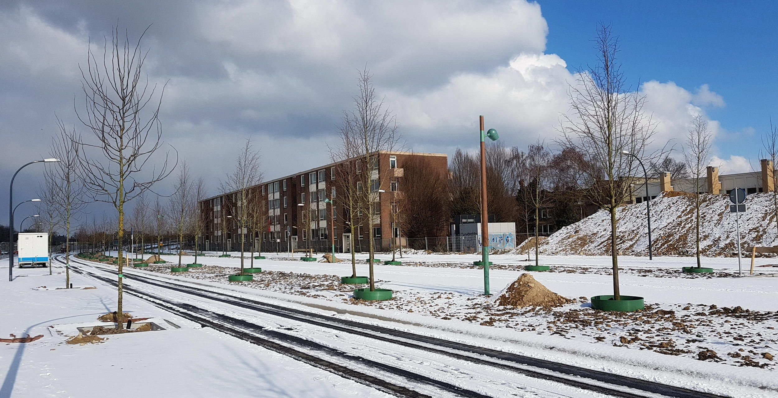 Snowy view of the "Green Carpet" (Groene Loper) under construction in Maastricht, the Netherlands. The Green Carpet is laid out on top of the Koning Willem-Alexandertunnel, where the A2 motorway ran aboveground until 2016. Around 1100 houses will be built along this 2.5 km long park-like zone. Over 2000 lime trees have been planted. The new road is destined for local traffic; the central strip will be reserved for bicycles and pedestrians.